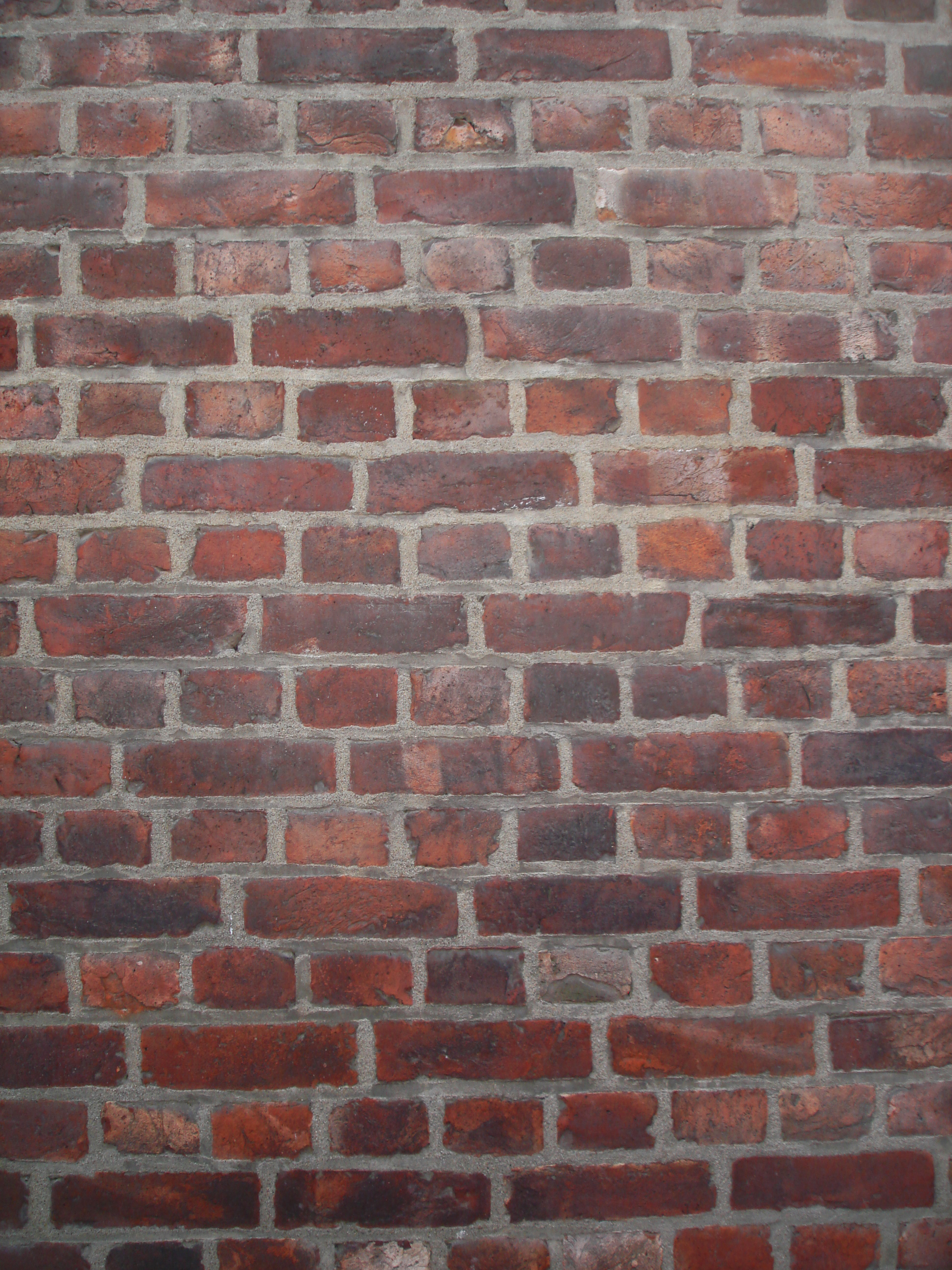 Cross bond brickwork in the wall of a 19th century industrial building in Oslo, NorwayNorsk bokmål: Kryssforband i murverk på en fabrikkbygning fra 1800-årene i Oslo